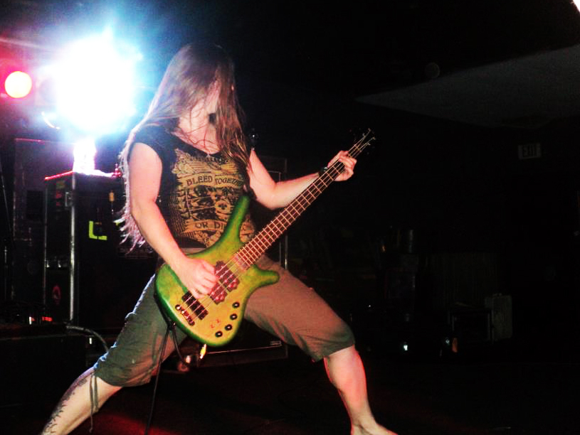 Live shot of Ivy Vujic Jenkins performing with Kittie